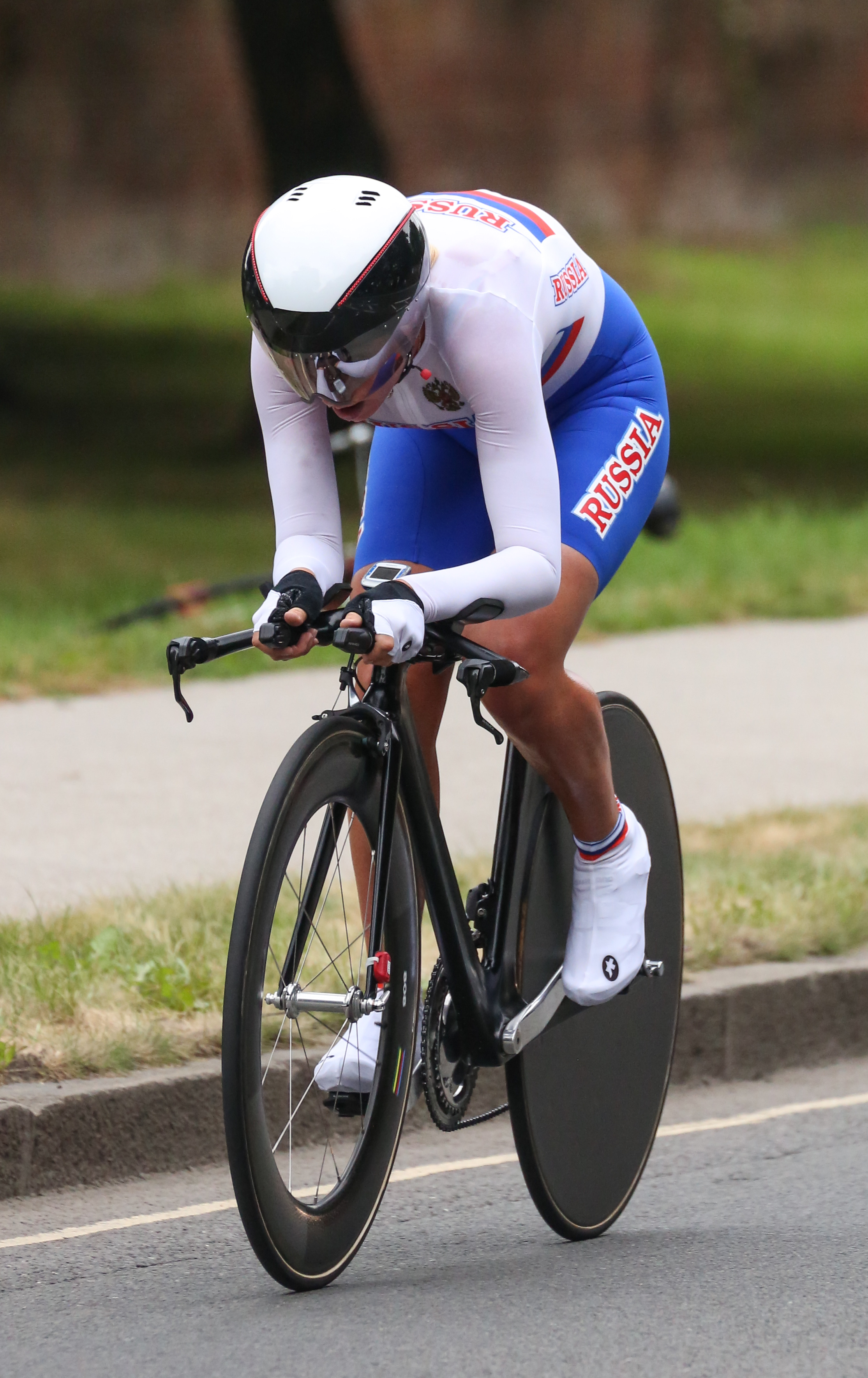 Olga Zabelinskaya competing in the London 2012 Women's Olympic Time Trial.